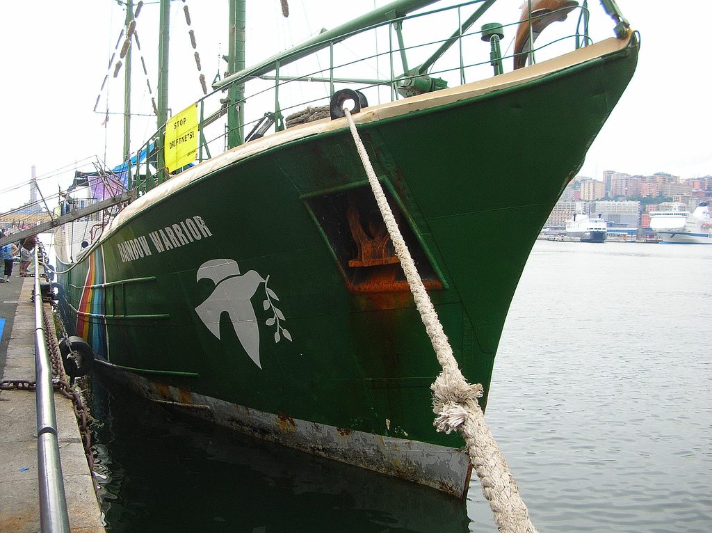 The Rainbow Warrior at the port of Genoa in June of 2006